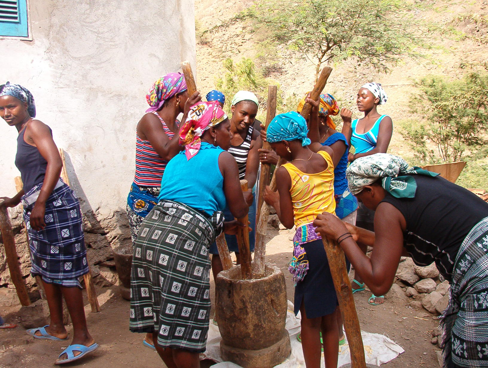 Cape verdean women using a pilon (local name).IM000508